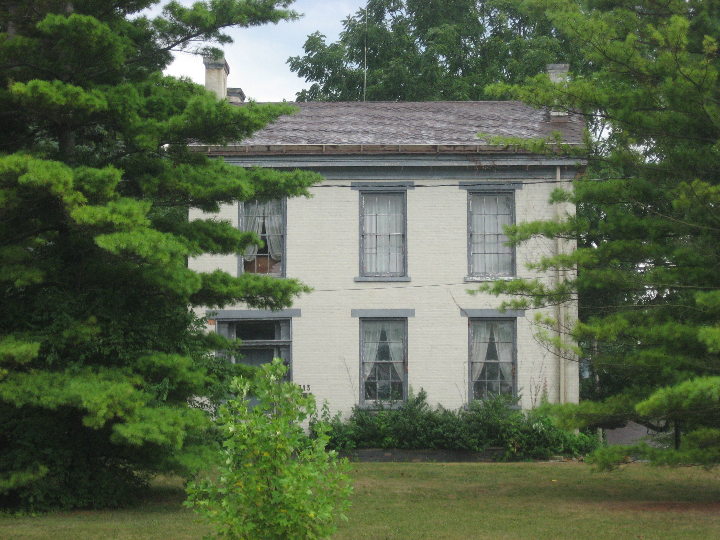 Front of the Oliver P. Morton House, located at 319 W. Main Street (U.S. Route 40) in Centerville, Indiana, United States. Built in 1848, it was the home of Oliver P. Morton, Governor of Indiana during the Civil War, and today it is listed on the National Register of Historic Places.